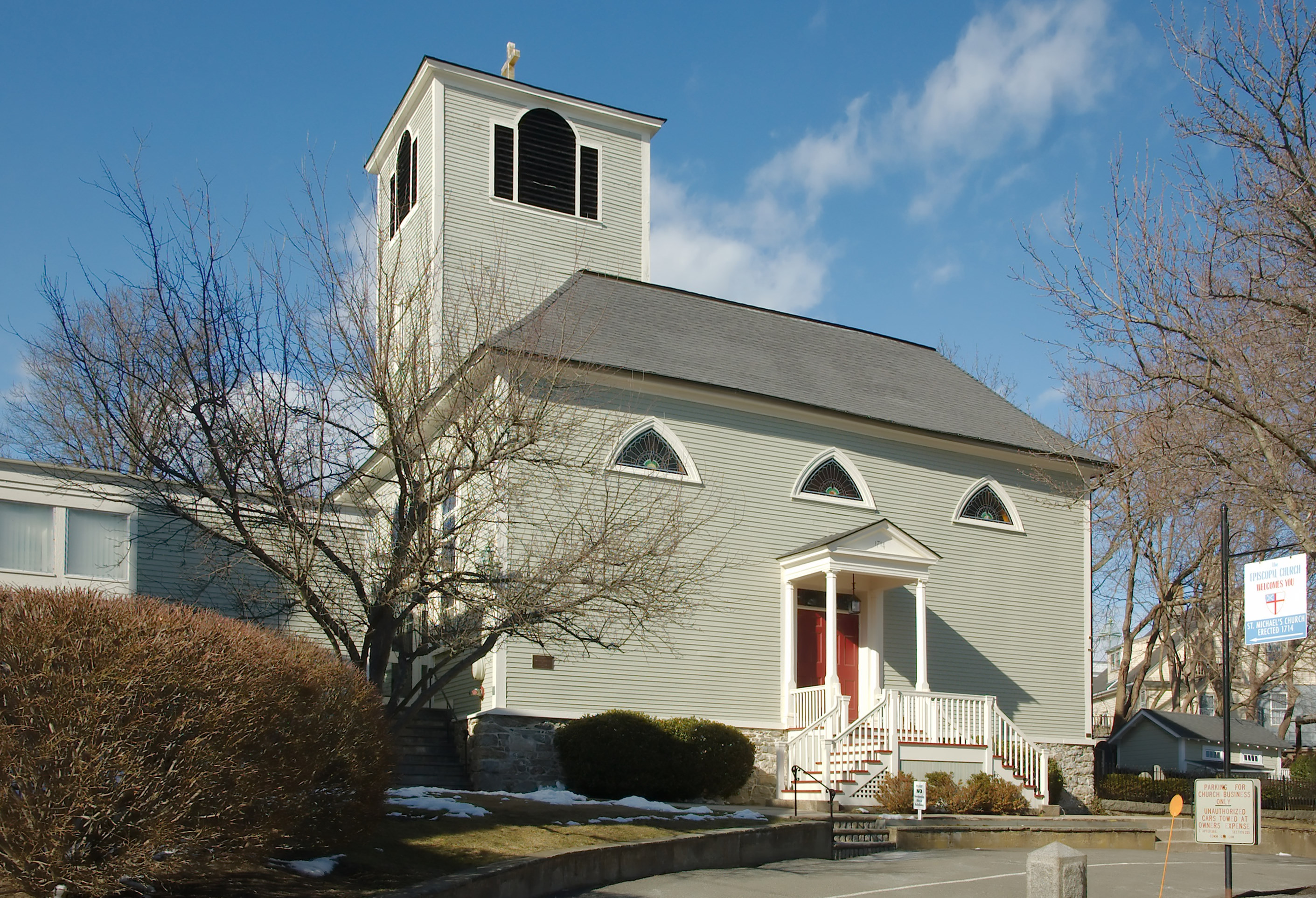 St. Michael's Church in Marblehead, Massachusetts, founded in 1714 and renovated in 1833.